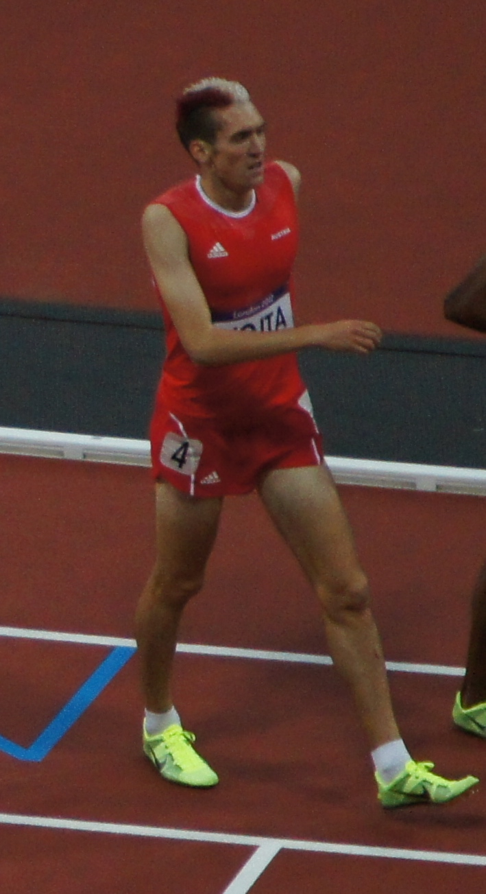 Andreas Vojta at the 2012 Summer Olympics